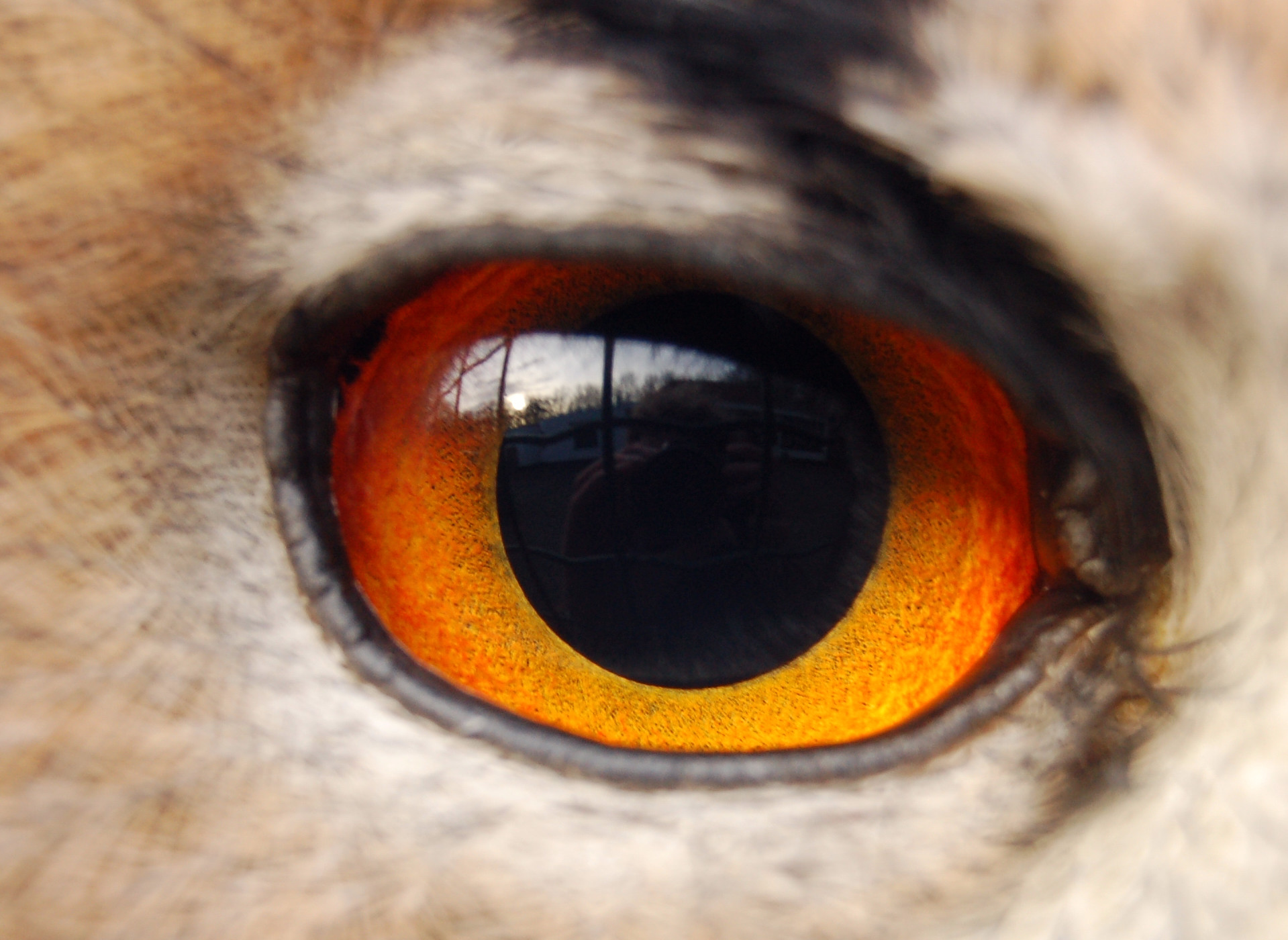 Detail of an eye of an eagle owl If you look really closely, you can see the reflection of the camera man in the eye.